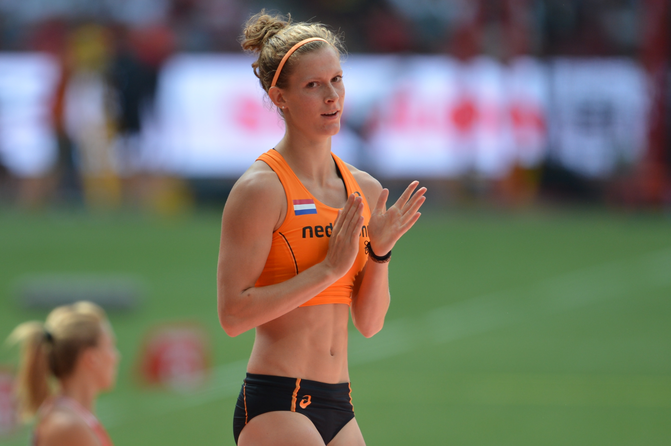 Femke Pluim at the 2015 World Championships in Beijing